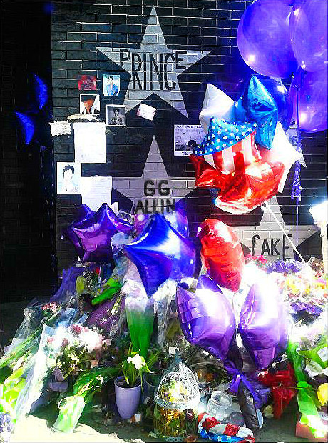 Grieving fans left various items including CD's, purple balloons, cards, love letters, and a tiny stuffed purple monkey-friend beneath the beloved artist's star painted on the front of the historic nightclub First Avenue in downtown Minneapolis after his death.